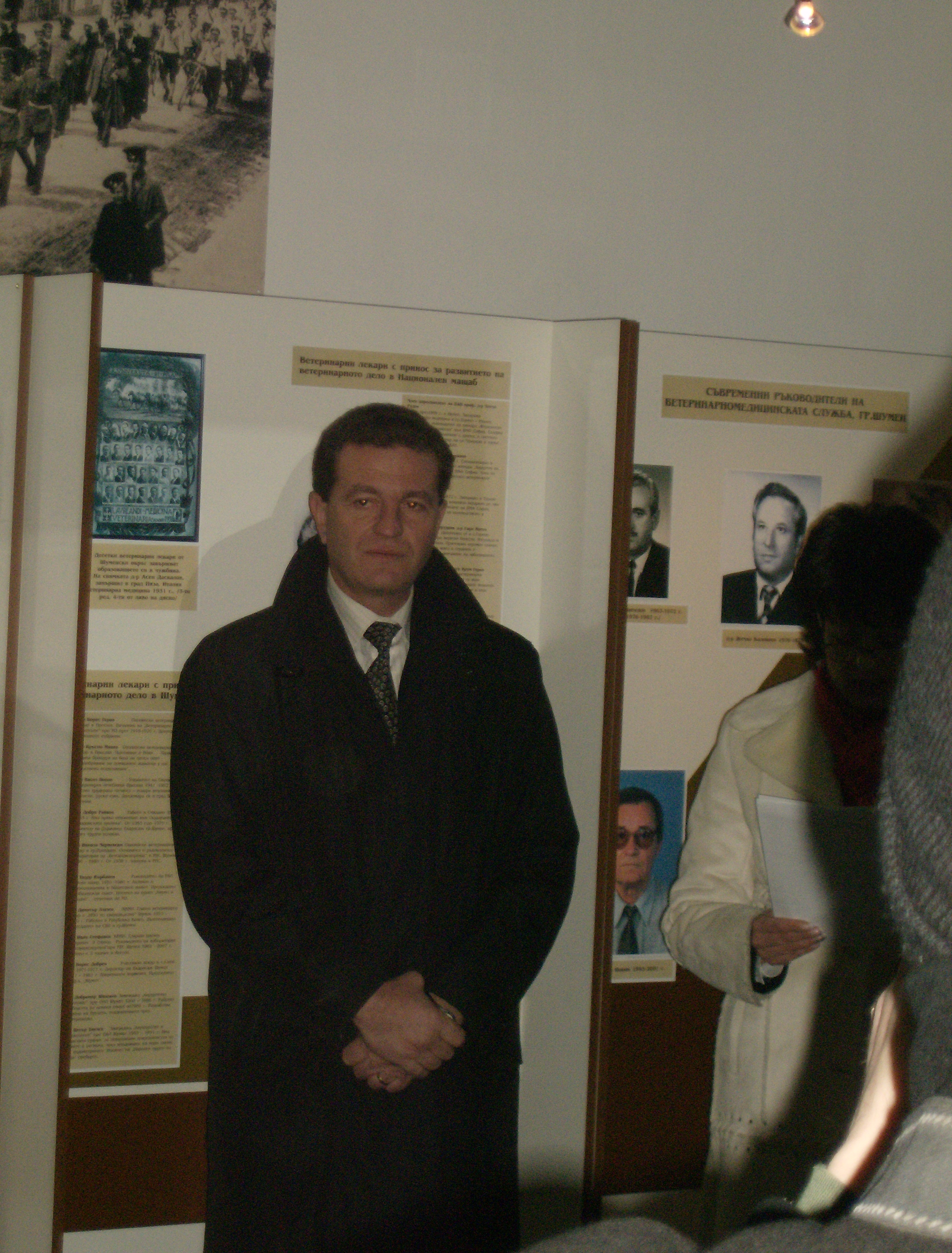 Dimitar Alexandrov